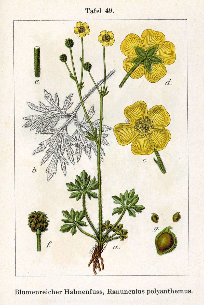 Ranunculus polyanthemos L. s. str. Original Description Blumenreicher Hahnenfuss, Ranunculus polyanthemus